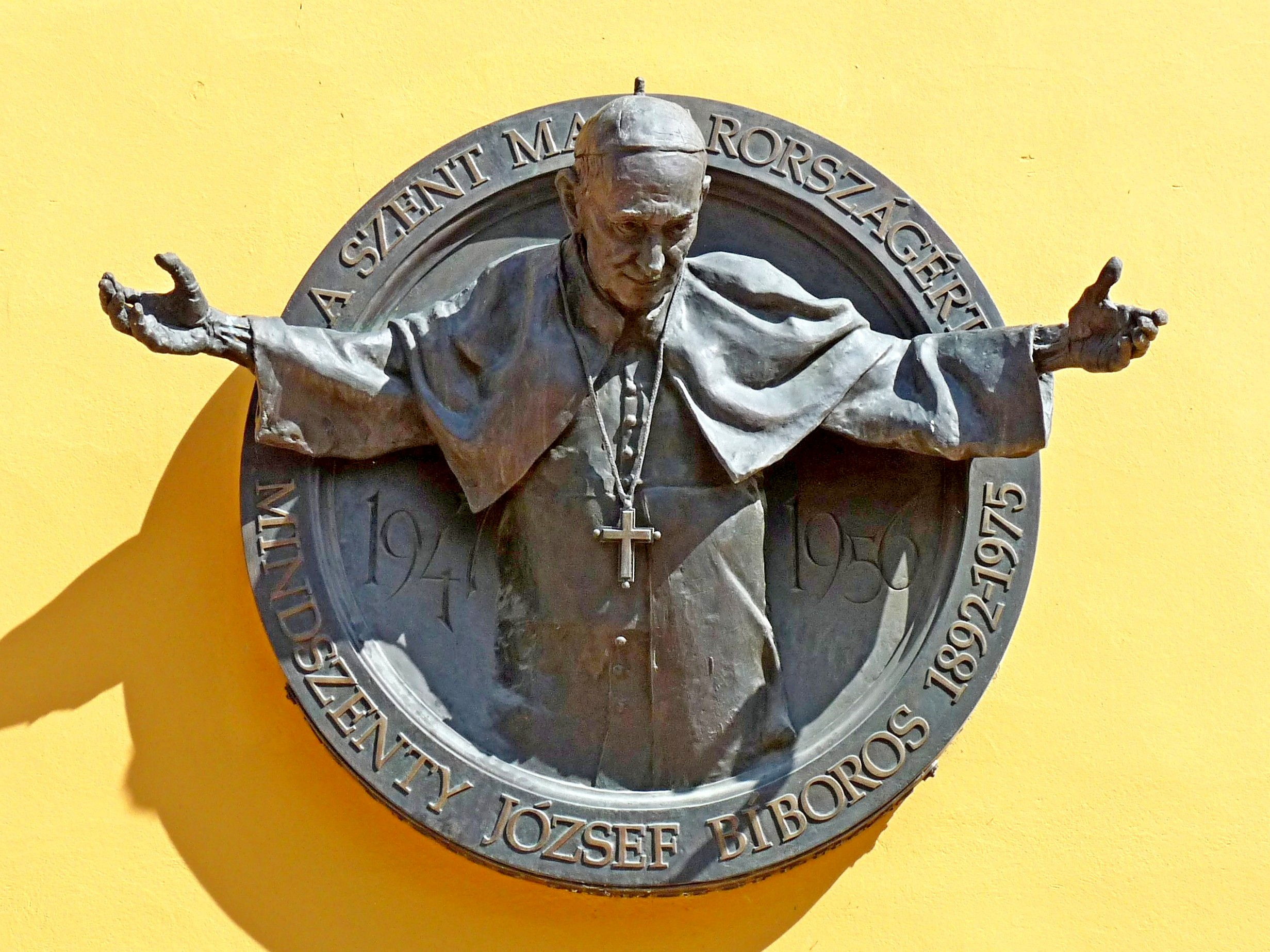 Commemorative plaque to Mr. József Mindszenty (1892–1975) Primate of Hungary and Archbishop of Esztergom. It was affixed to the wall of the Holy Trinity Roman Catholic Church on October 8, 2006. The relief in bronze was sculpted by Péter Párkányi Raab. (Balassagyarmat, Rákóczi fejedelem Street Nr 20)